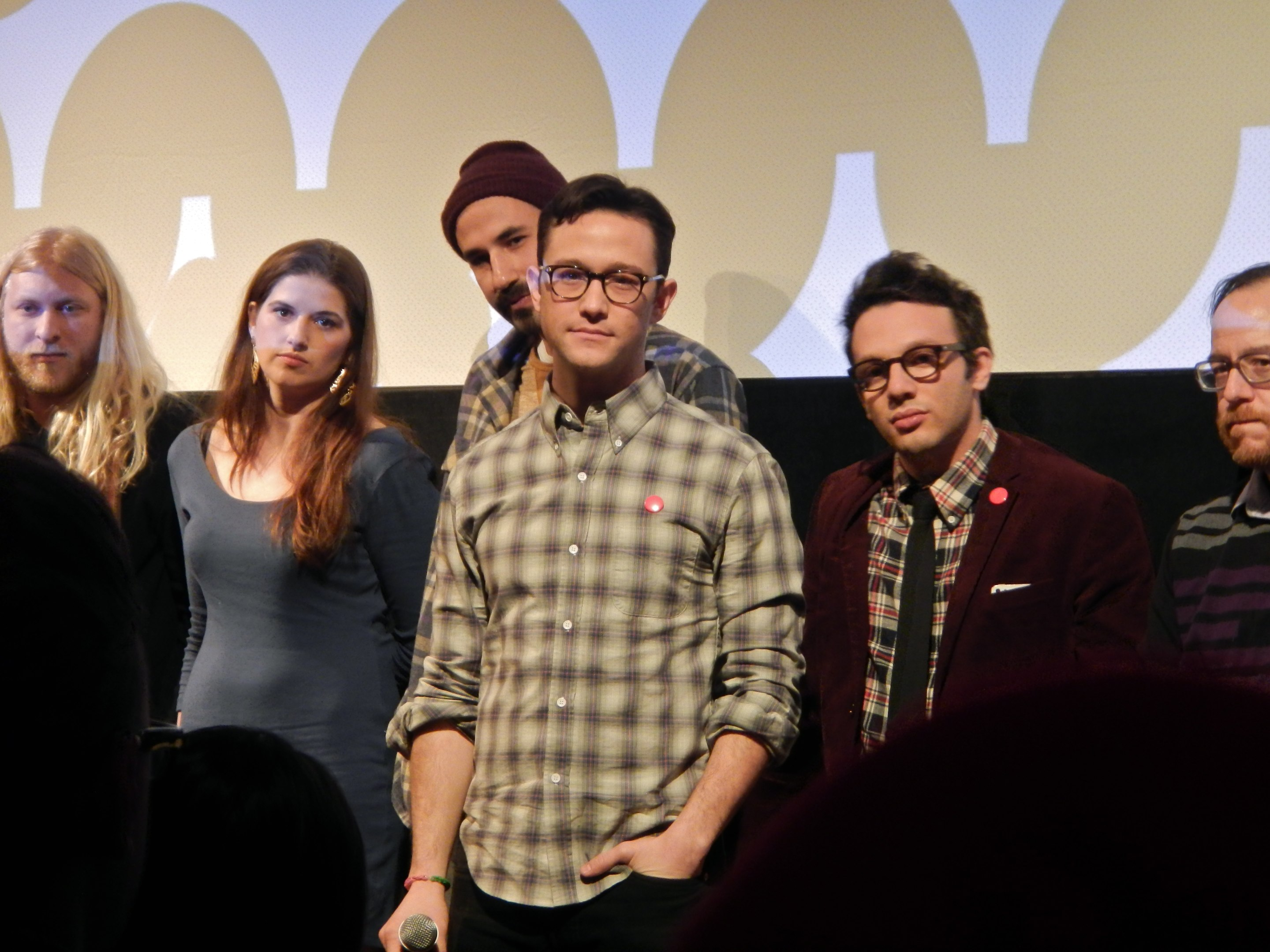 HitRECord on TV at Sundance 2014